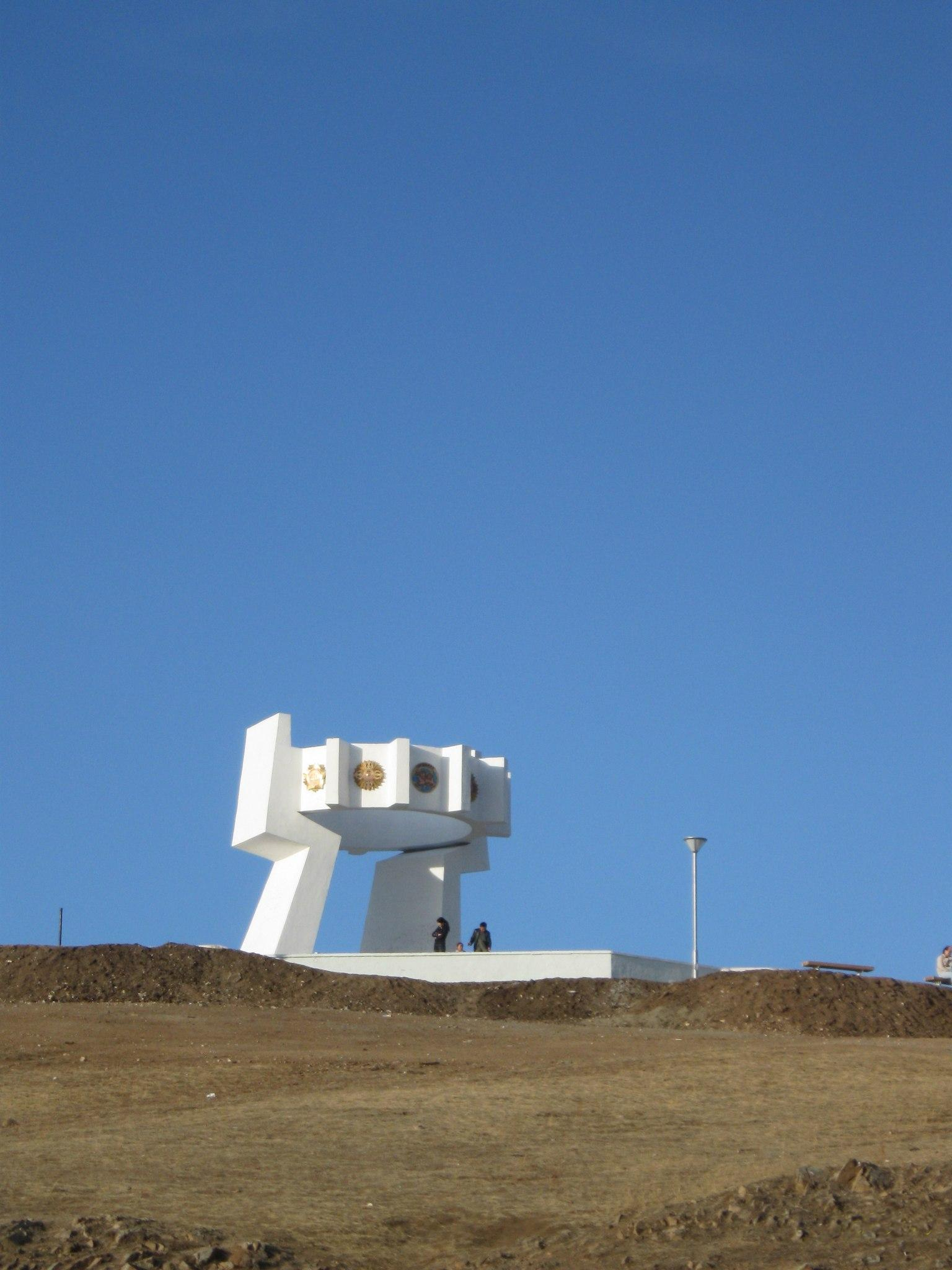 The communist "Fraternity monument" in Erdenet city, Mongolia.